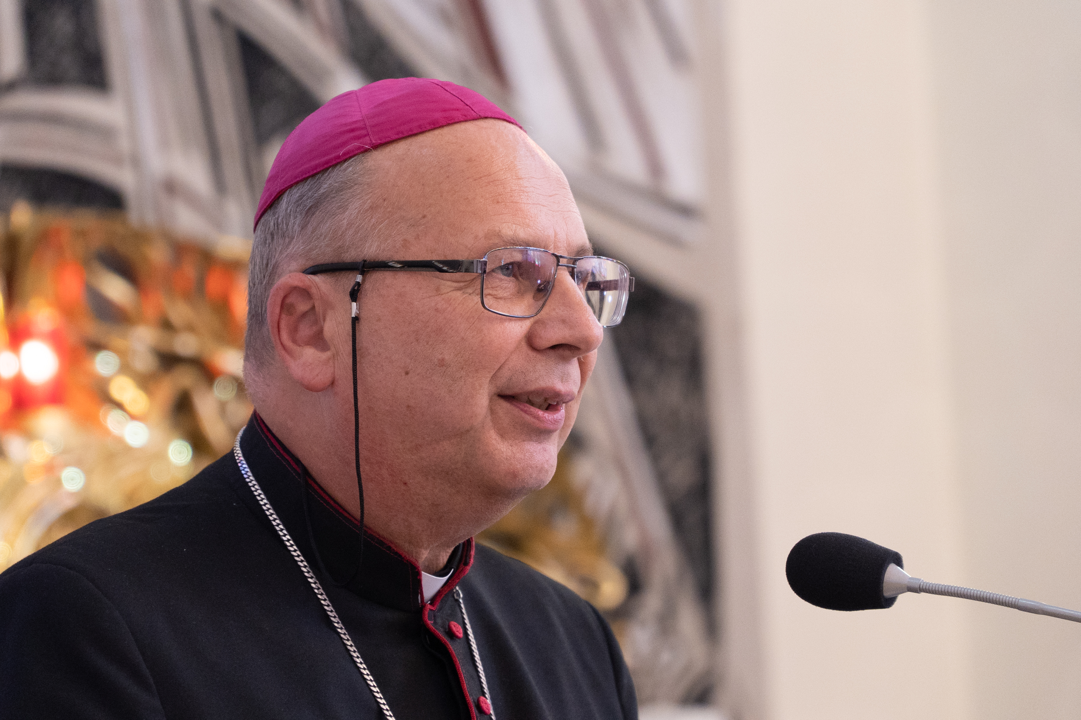 Jerzy Maculewicz OFMConv